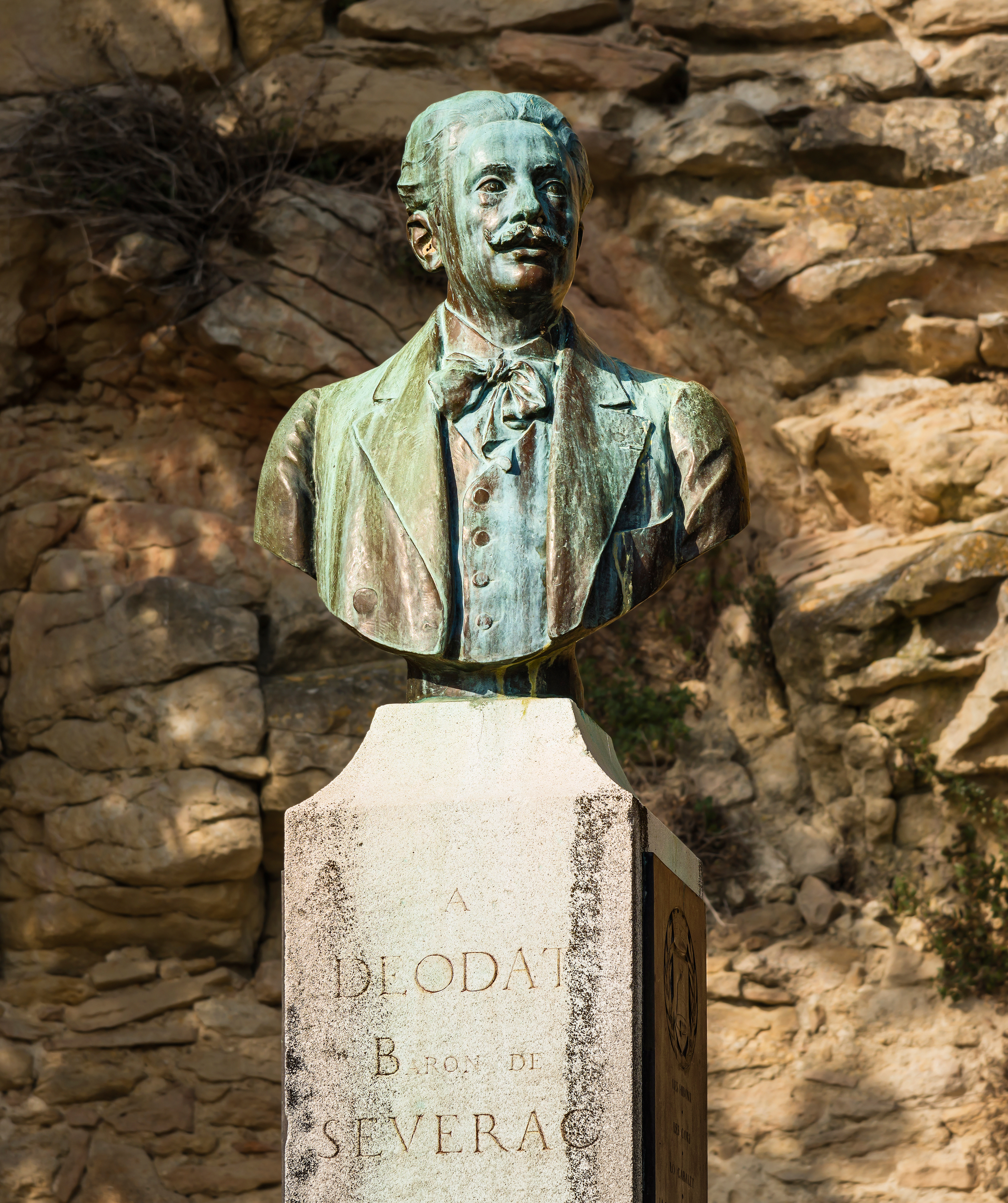 Saint-Félix-Lauragais. City wall: the bust of Déodat de Séverac by Joseph Lamasson inaugurated September 14, 1924.